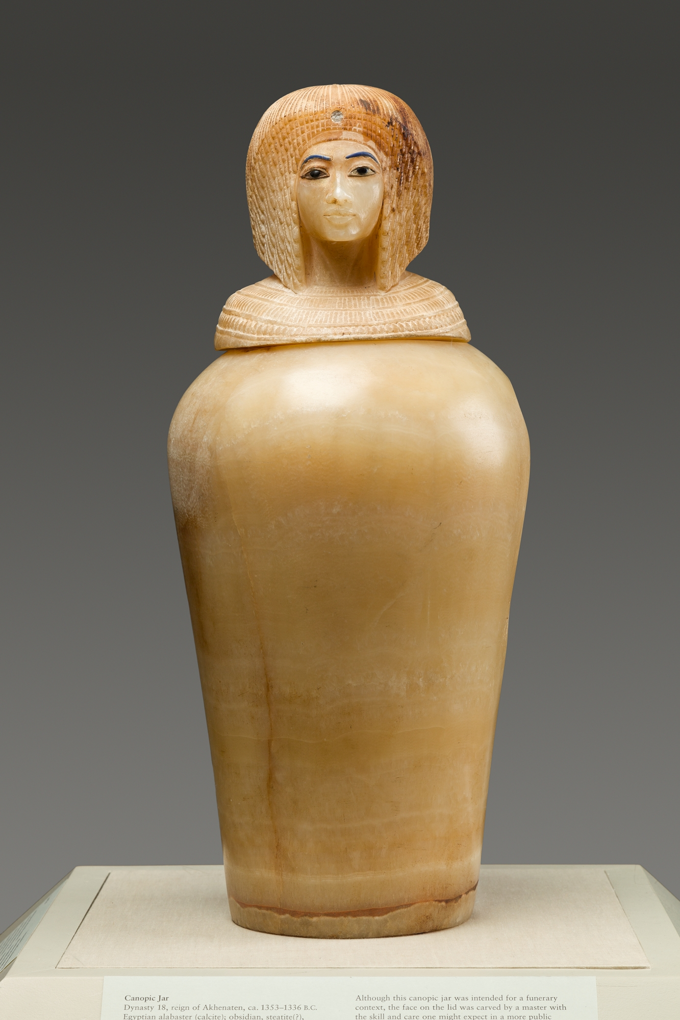 Canopic Jar Lid to the jar 07.226.1 of Kiya, secondary queen of Akhenaten